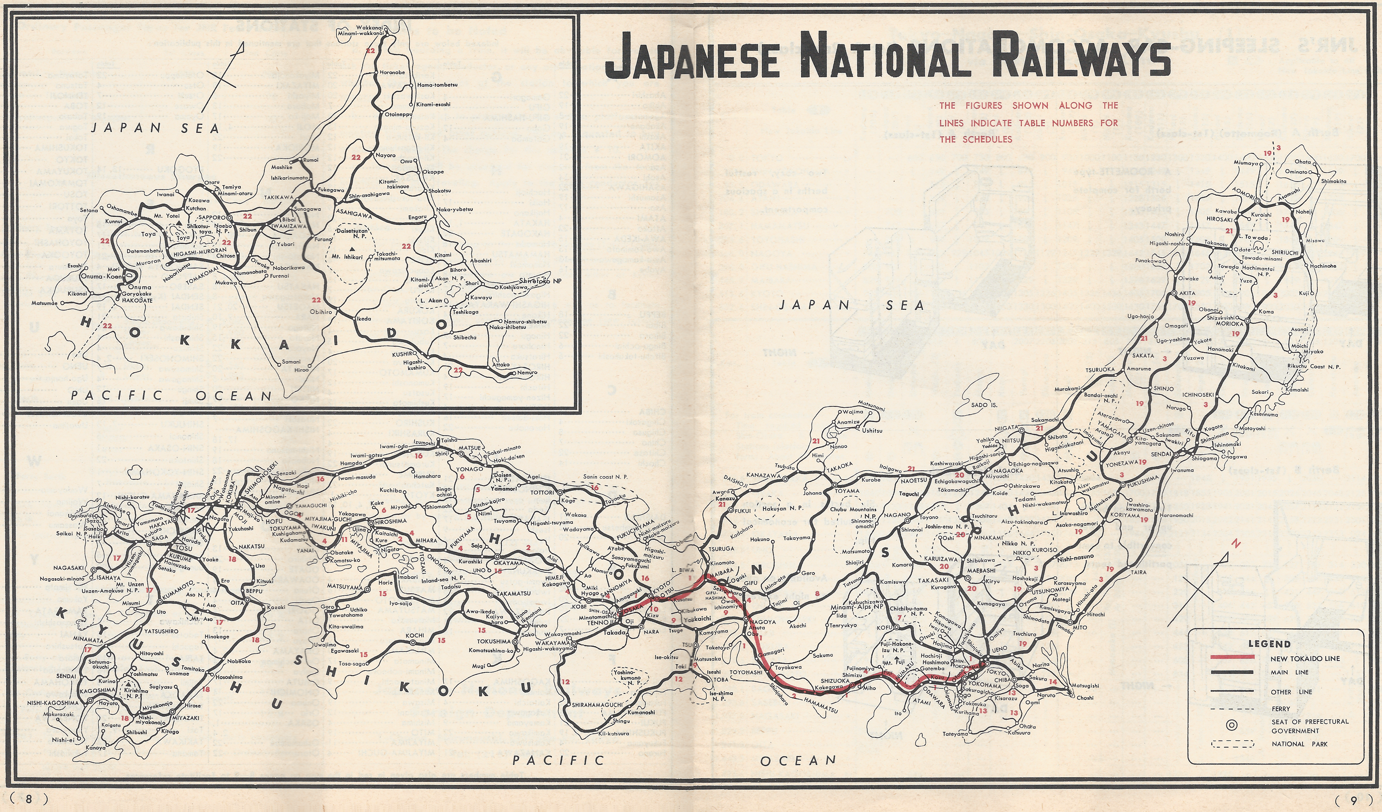 Japanese National Railways System Map from Passenger Schedule effective 1964-10-01, showing the new Tokaido Shinkansen line (in red) and conventional lines